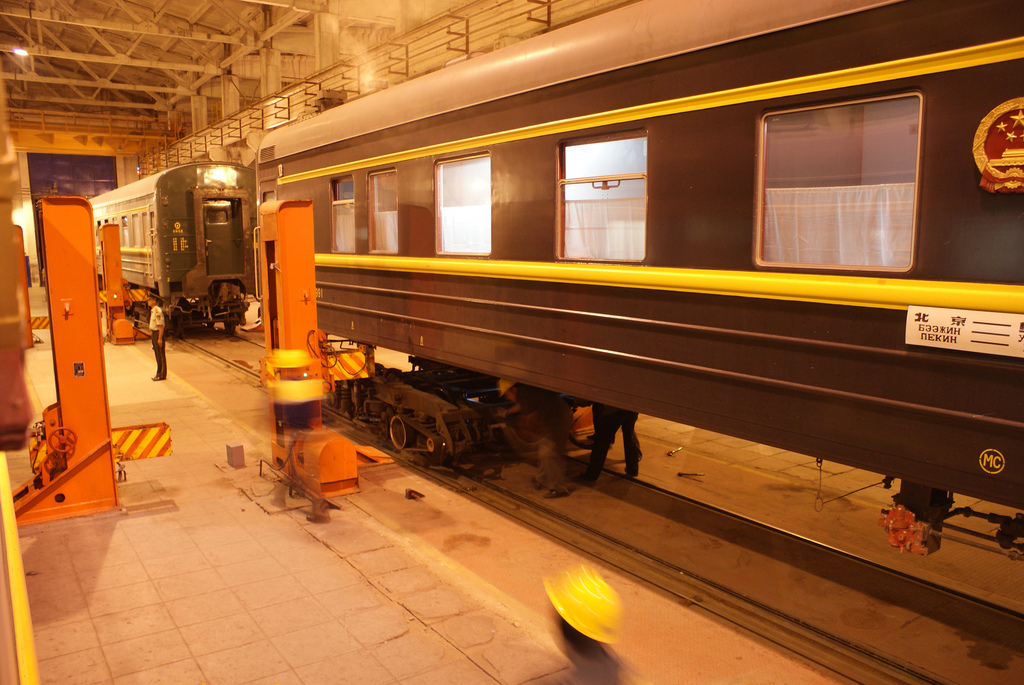 At the mongolian/chinese border: decoupled the whole train, jacked up the cars, replaced the undercarriage and off we go!